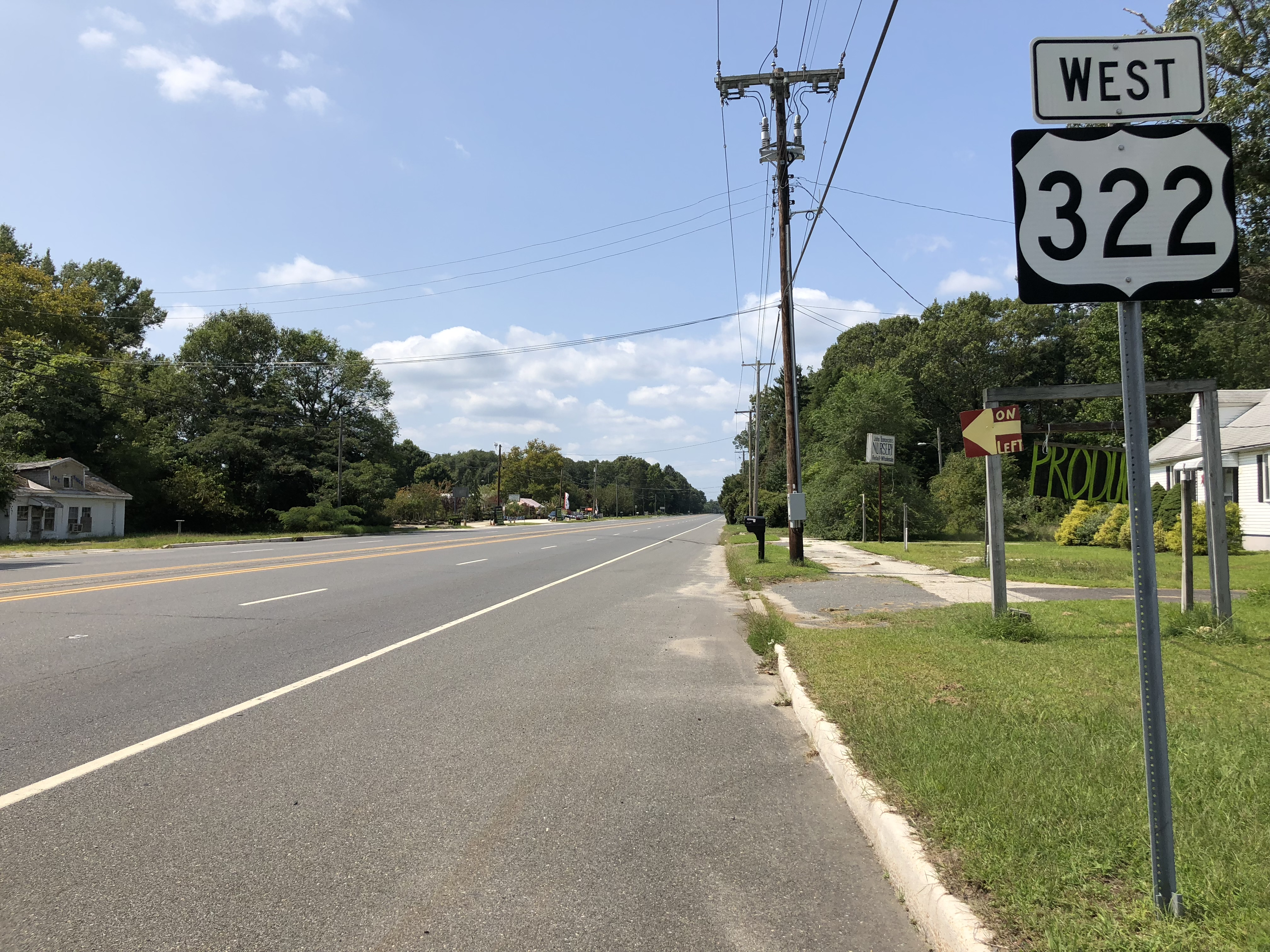 View west along U.S. Route 322 (Black Horse Pike) just west of Piney Hollow Road in Monroe Township, Gloucester County, New Jersey